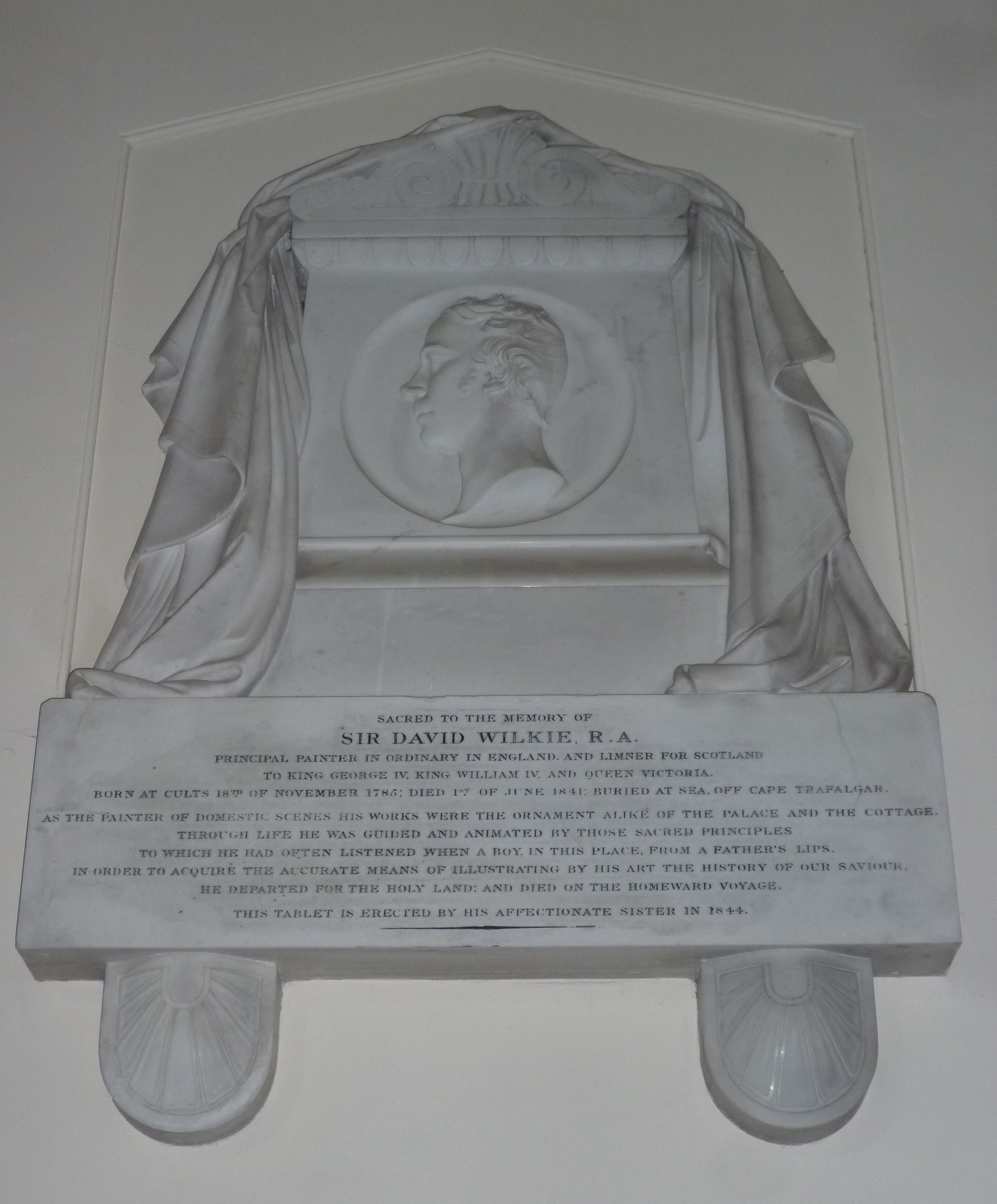 Memorial to Sir David Wilkie R.A., erected by his sister in Cults Kirk